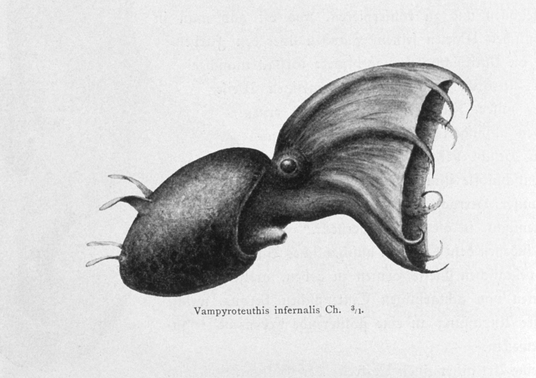 Vampyroteuthis infernalis